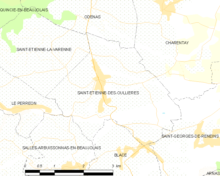 Map of French municipality